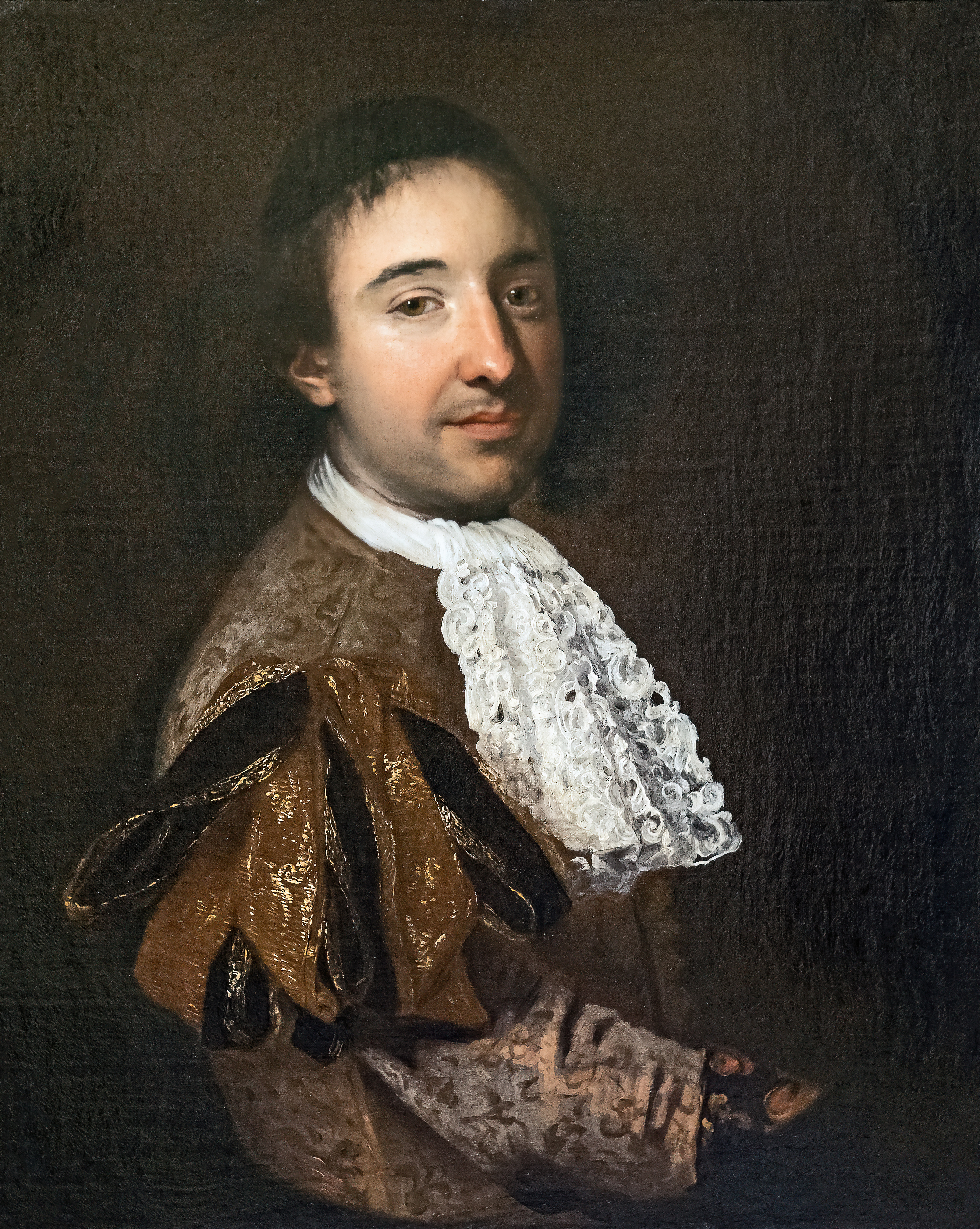 Giovanni Querini Stampalia's Portrait